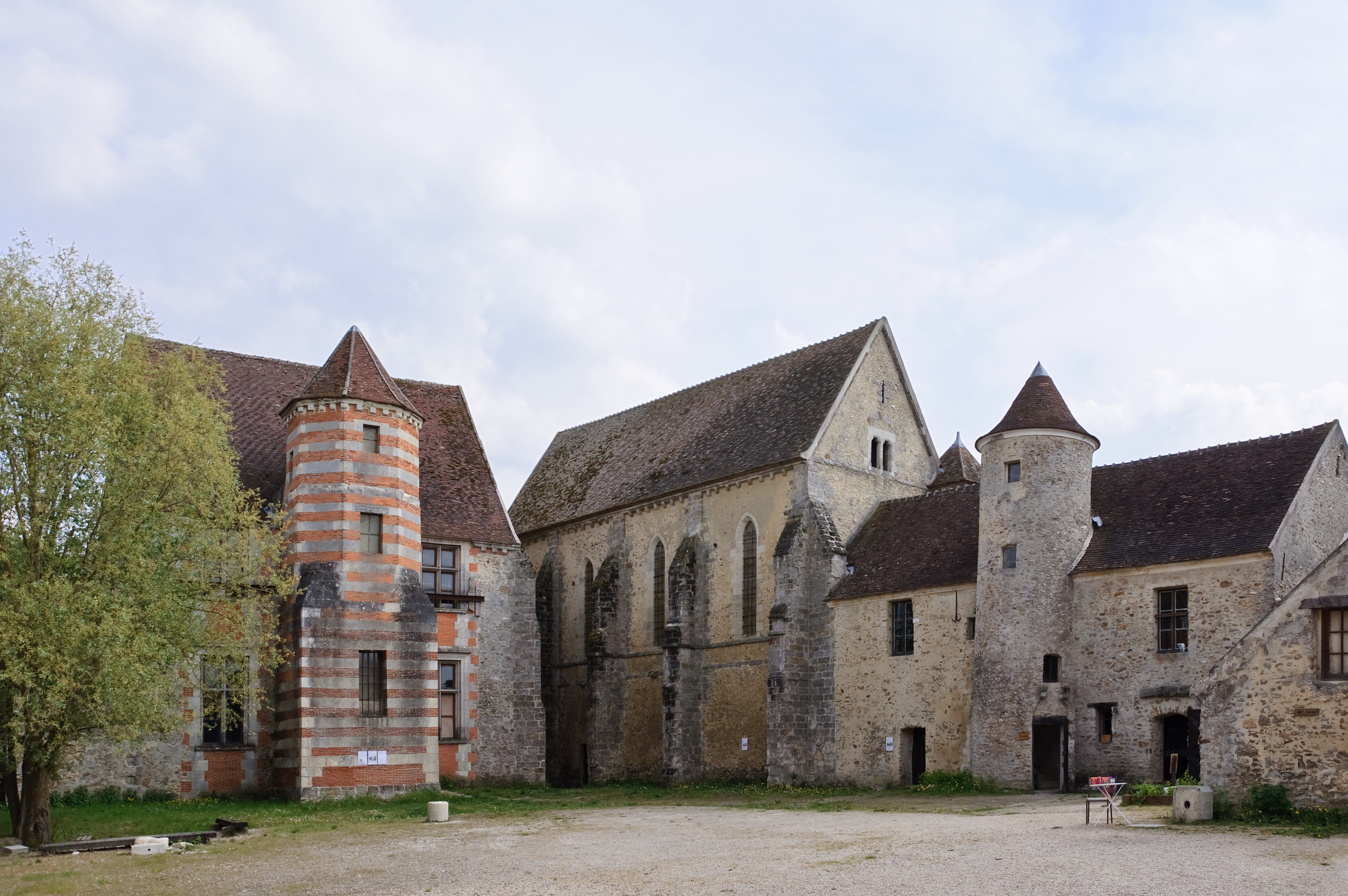 Former Knights Templar commandery in Coulommiers (Seine-et-Marne, France): the house of the commander (12th - 16th-century), the chapel (13th-century), the chapter house (12th-century), the dovecote (17th-century).